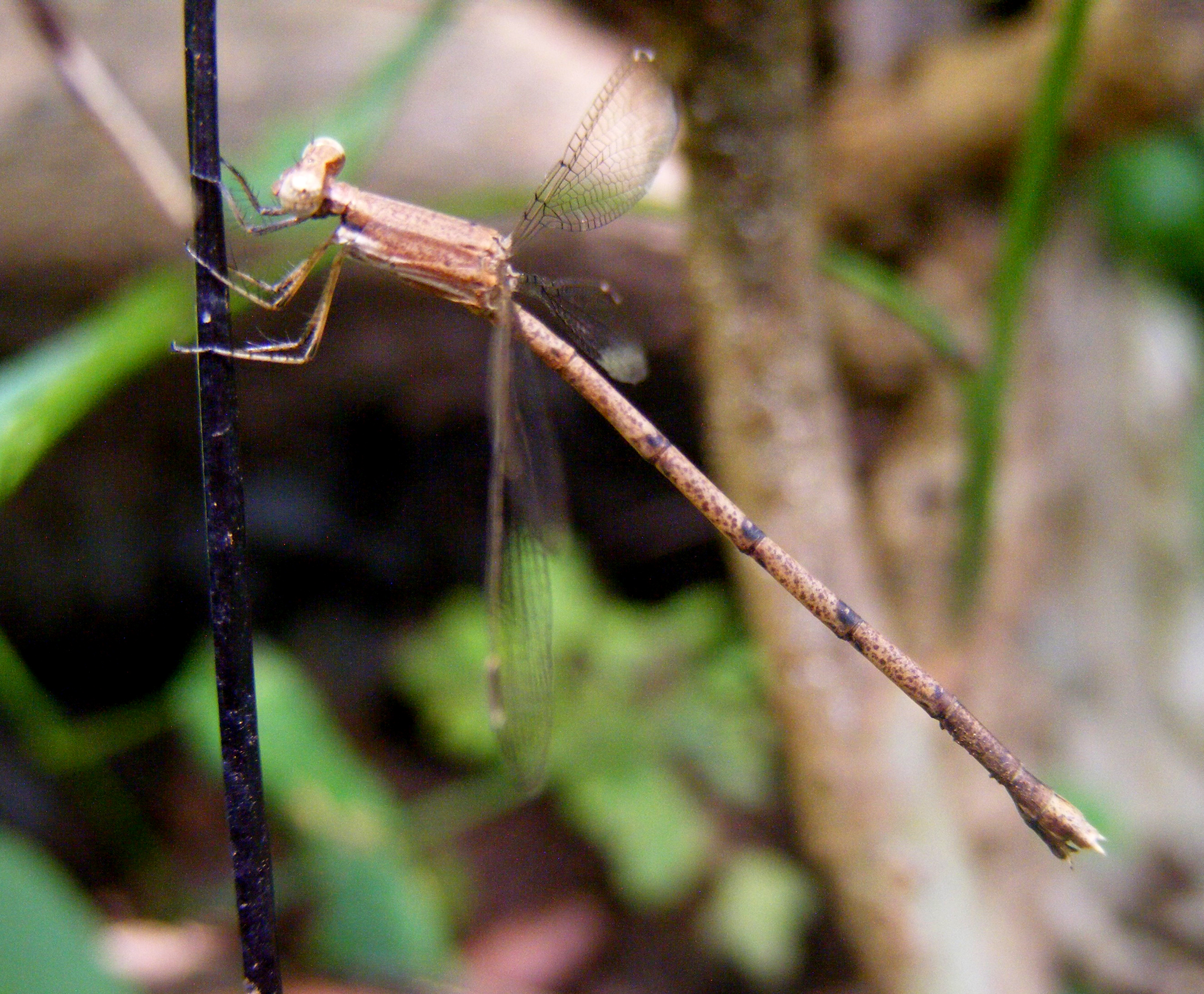 Lestes nodalis female